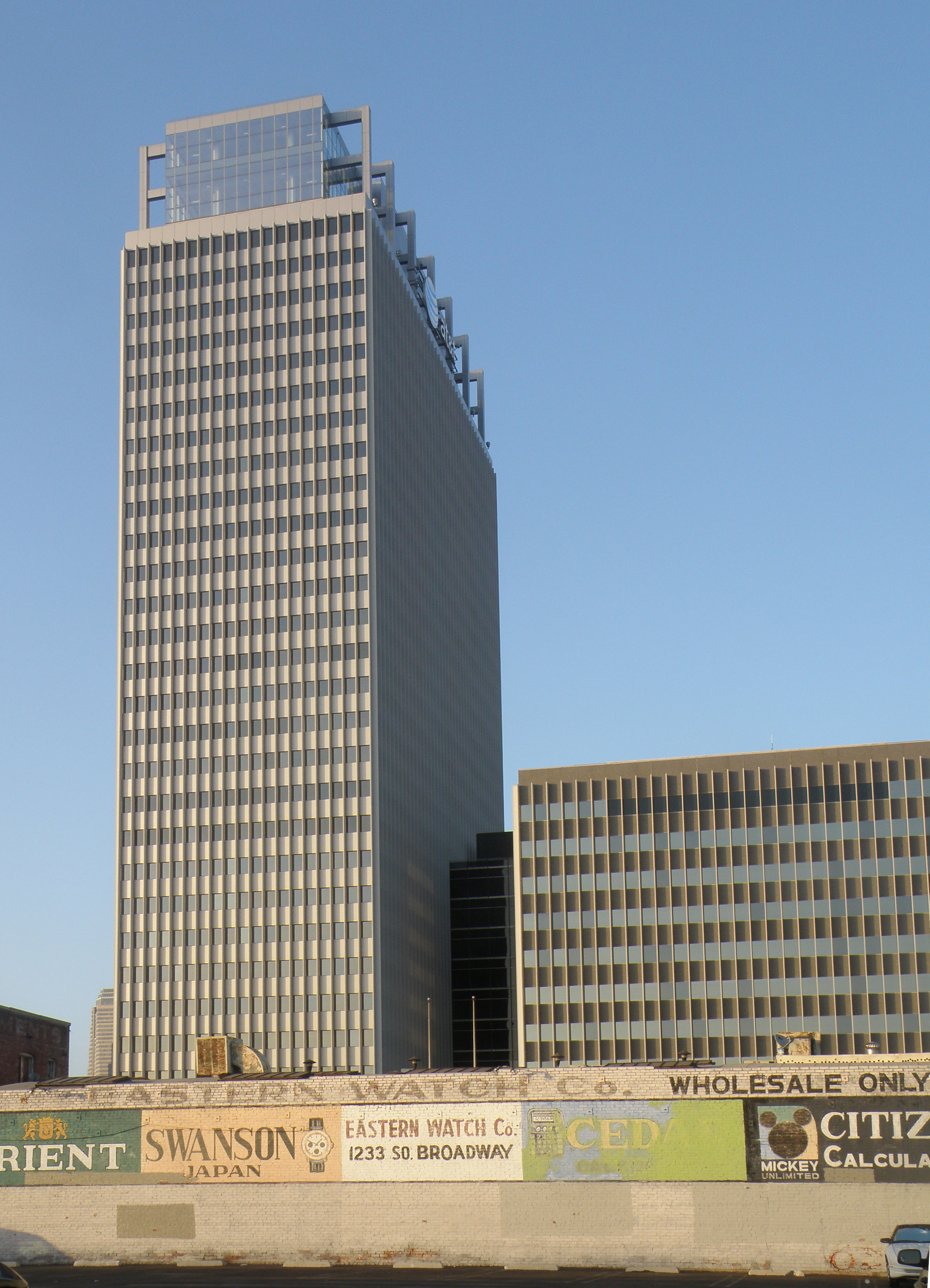 The AT&T Center — on South Olive Street in the South Park neighborhood of Downtown Los Angeles, California. The skyscraper was originally the Occidental Life Insurance Building, later renamed the Transamerica Building and SBC Tower before AT&T. Built in 1965 with 32 stories, it was the second tallest building in Los Angeles after City Hall for awhile. Now it's the 30th tallest.